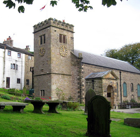 Photograph of the church, rotated, cropped and enhanced by me